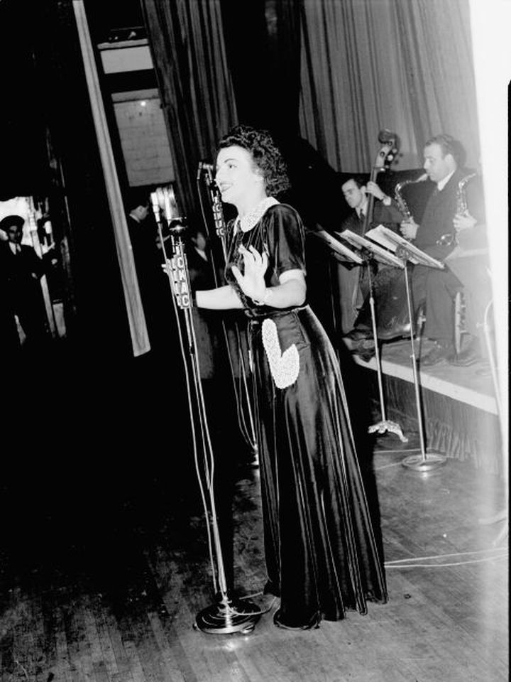 The singer Alys Roby accompanied by an orchestra on the stage of a theater during the broadcast of the show "Tourbillon de la Gaieté" from the author Roger Marien by CKAC in Montreal.